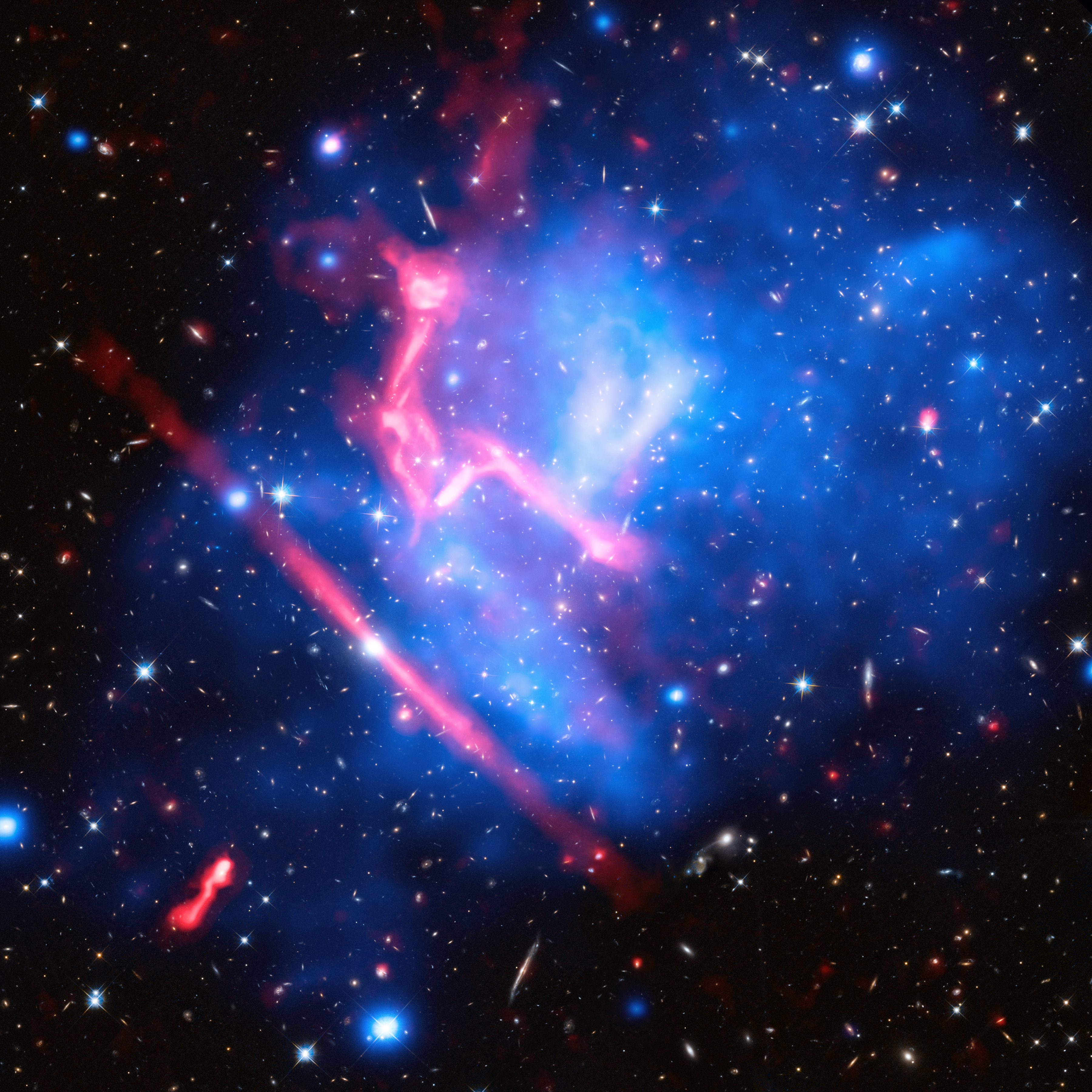 In October of 2013 Hubble kicked off the Frontier Fields programme, a three-year series of observations aiming to produce the deepest ever views of the Universe. The project’s targets comprise six massive galaxy clusters, enormous collections of hundreds or even thousands of galaxies. These structures are the largest gravitationally-bound objects in the cosmos. One of the Frontier Fields targets is shown in this new image: MACS J0717.5+3745, or MACS J0717 for short. MACS J0717 is located about 5.4 billion light-years away from Earth, in the constellation of Auriga (The Charioteer). It is one of the most complex galaxy clusters known; rather than being a single cluster, it is actually the result of four galaxy clusters colliding. This image is a combination of observations from the NASA/ESA Hubble Space Telescope (showing the galaxies and stars), the NASA Chandra X-ray Observatory (diffuse emission in blue), and the NRAO Jansky Very Large Array (diffuse emission in pink). The Hubble data were collected as part of the Frontier Fields programme mentioned above. Together, the three datasets produce a unique new view of MACS J0717. The Hubble data reveal galaxies both within the cluster and far behind it, and the Chandra observations show bright pockets of scorching gas — heated to millions of degrees. The data collected by the Jansky Very Large Array trace the radio emission within the cluster, enormous shock waves — similar to sonic booms — that were triggered by the violent merger. For more information on Frontier Fields, see Hubblecast 90: The final frontier.